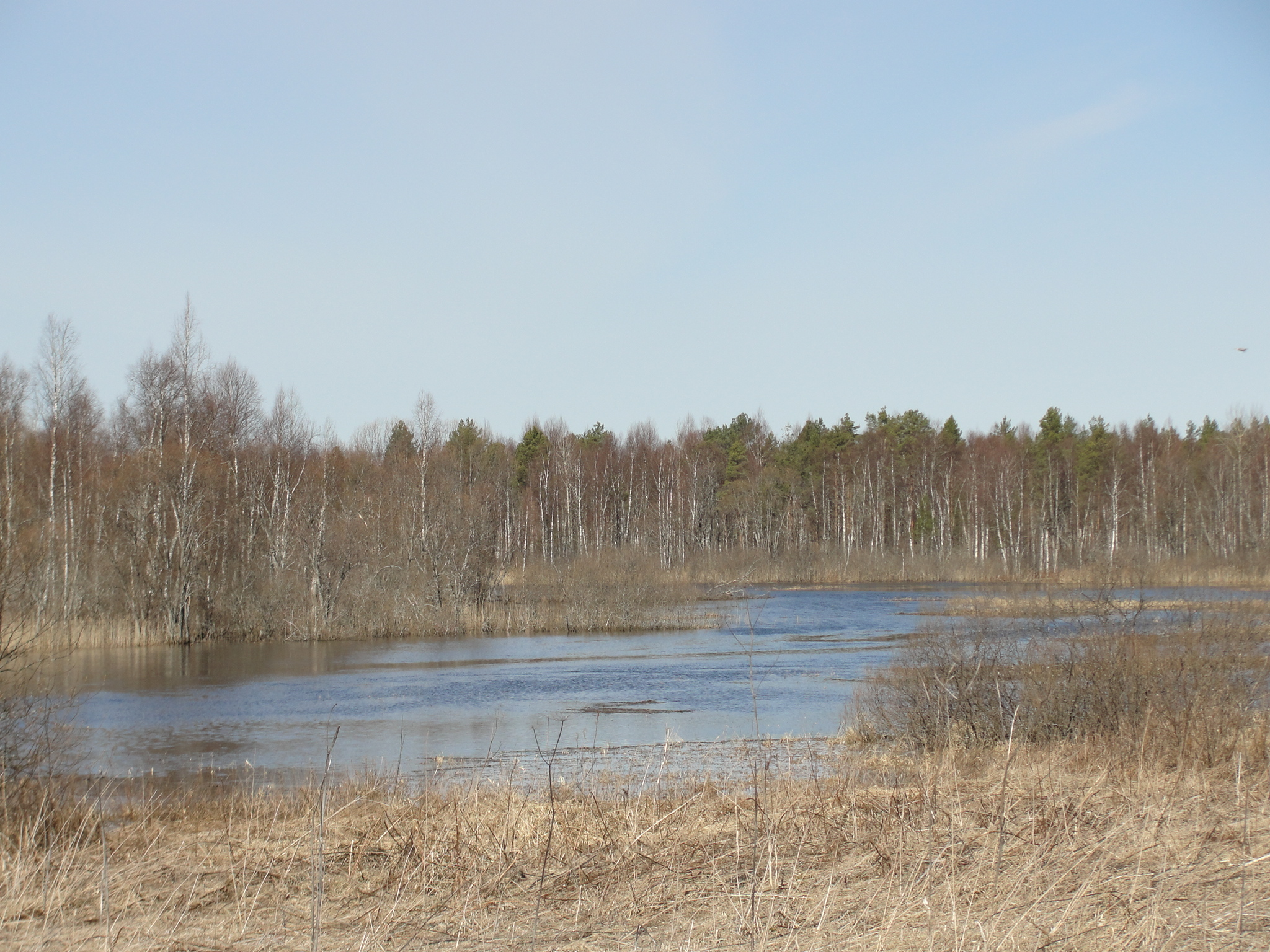 Vizma river in Vologda region of Russia